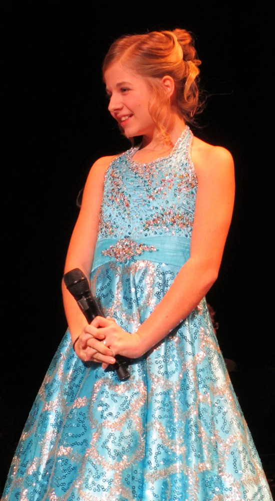 Jackie Evancho at her concert in Minneapolis, Minnesota.